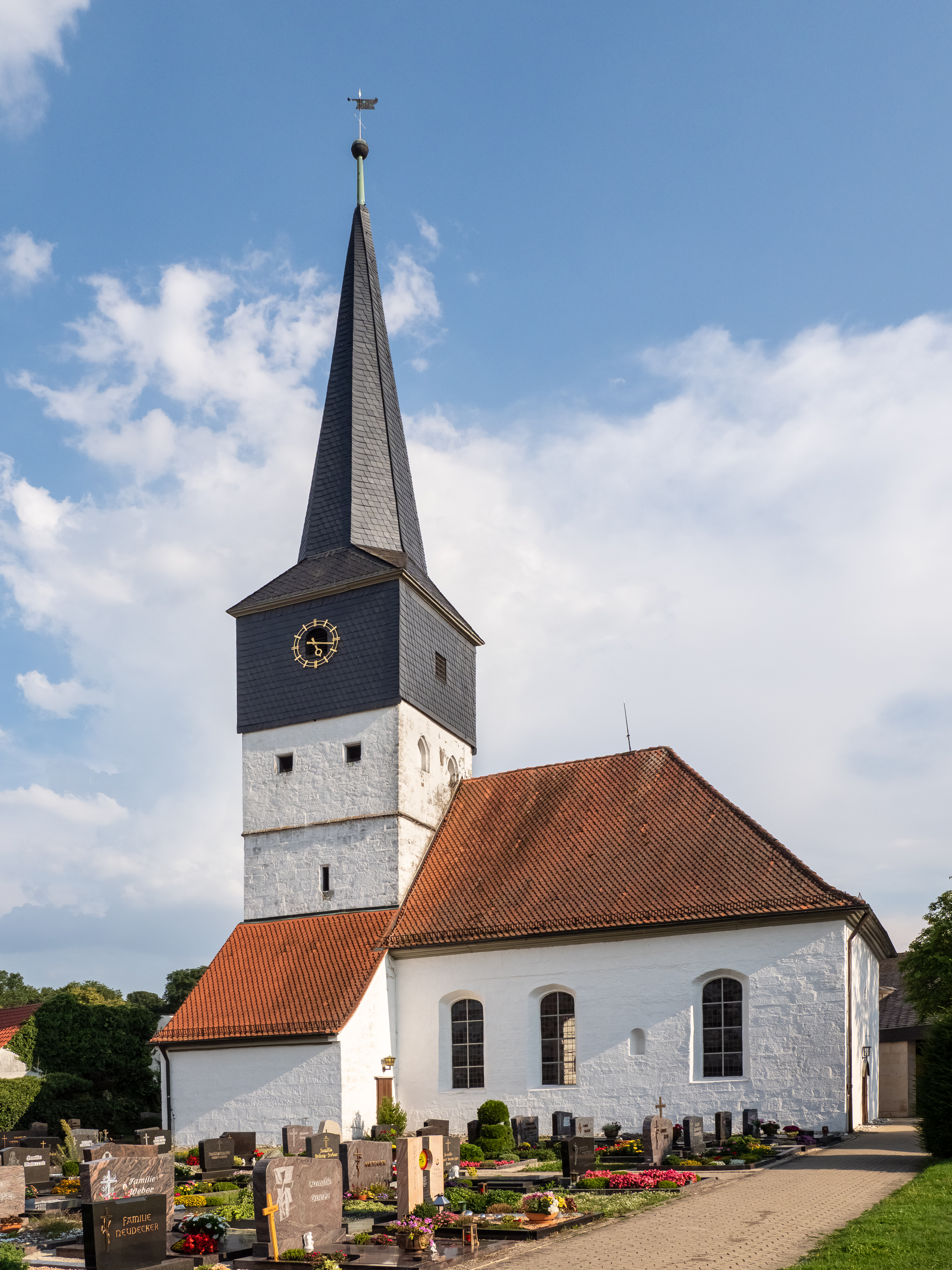 Evang.-Luth. parish church in Weisendorf Hauptstraße 6